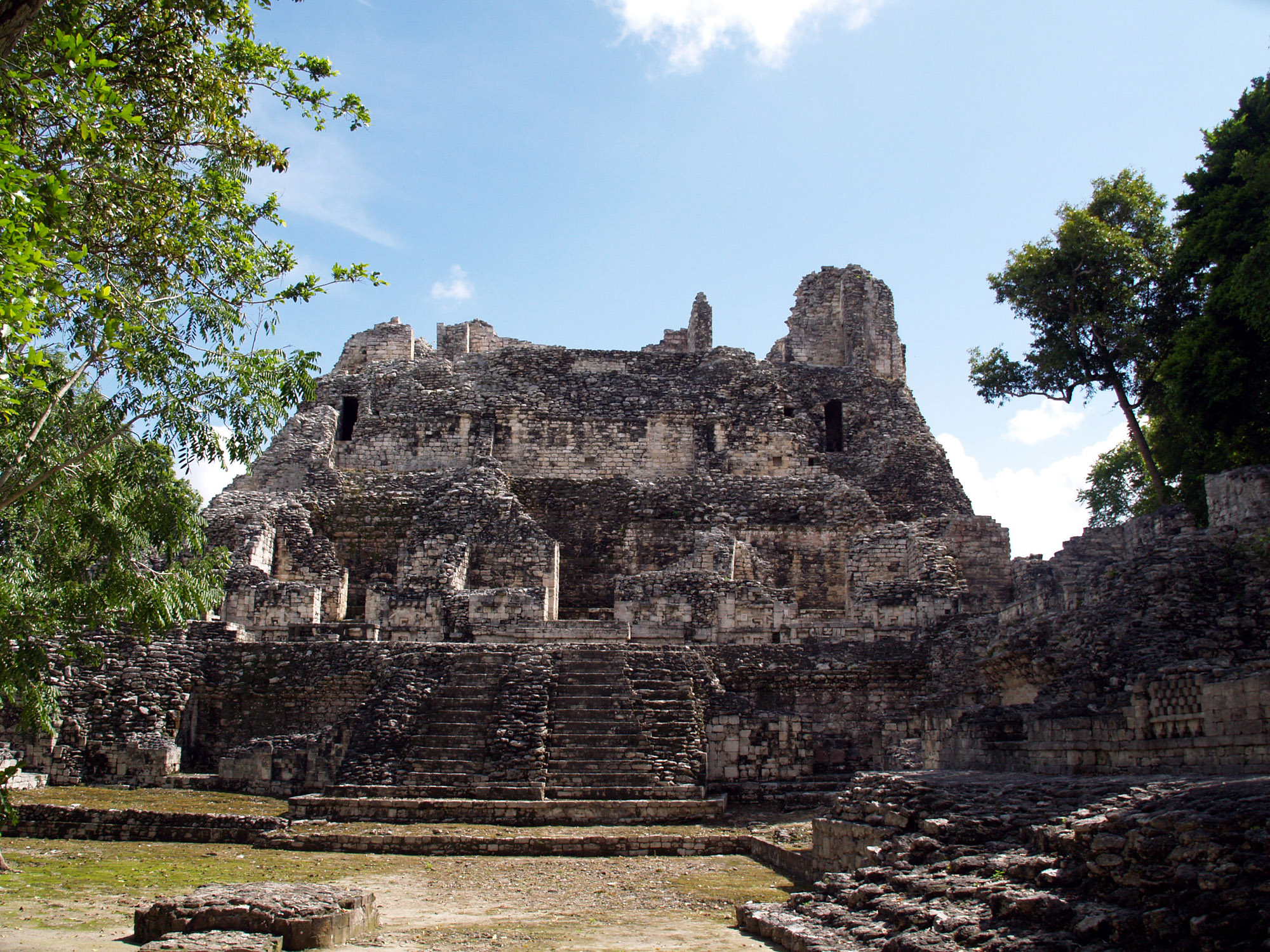 Structure IV, Site of Becán, Campeche, Mexico